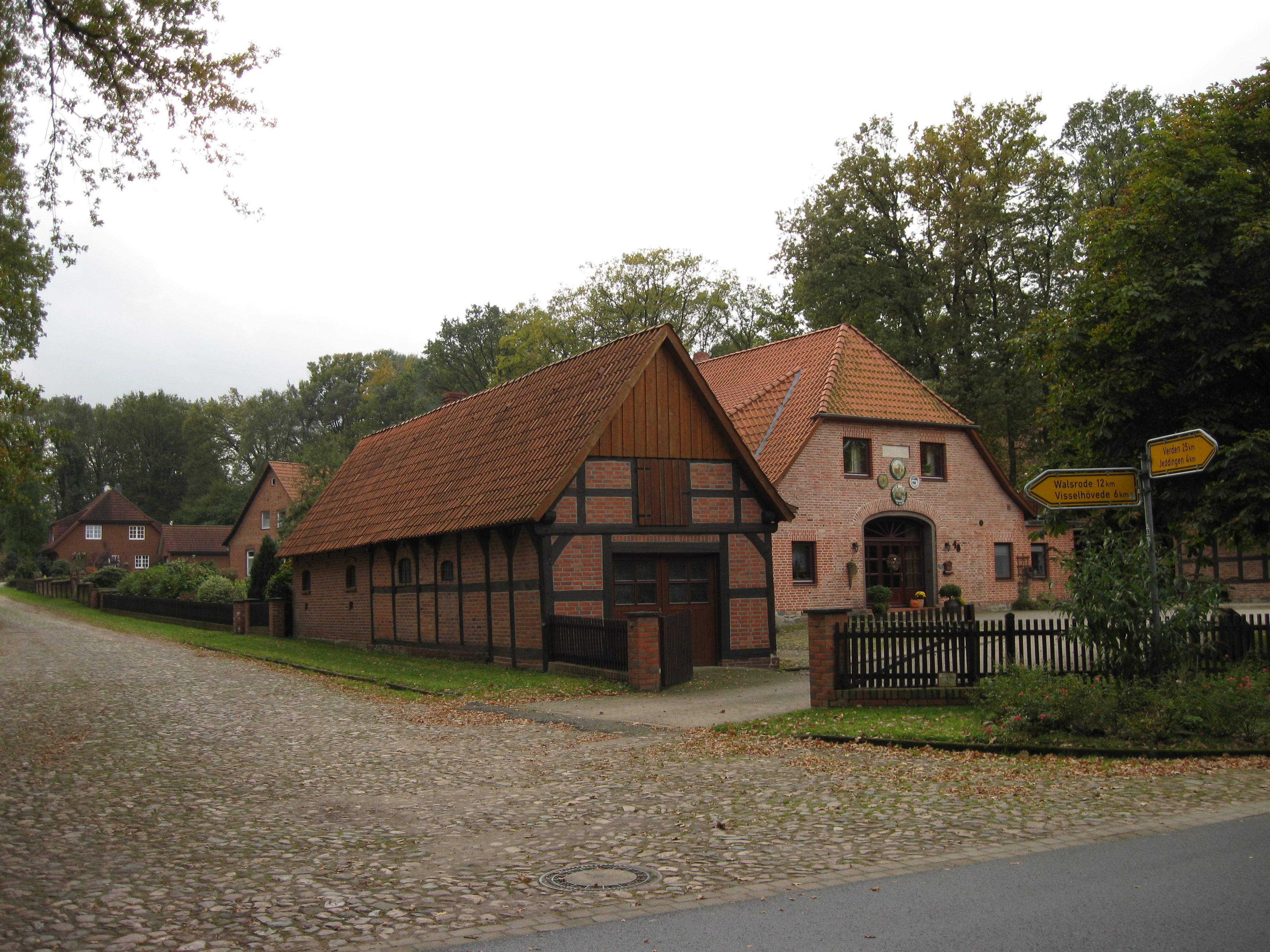 Stellichte, Walsrode, Germany